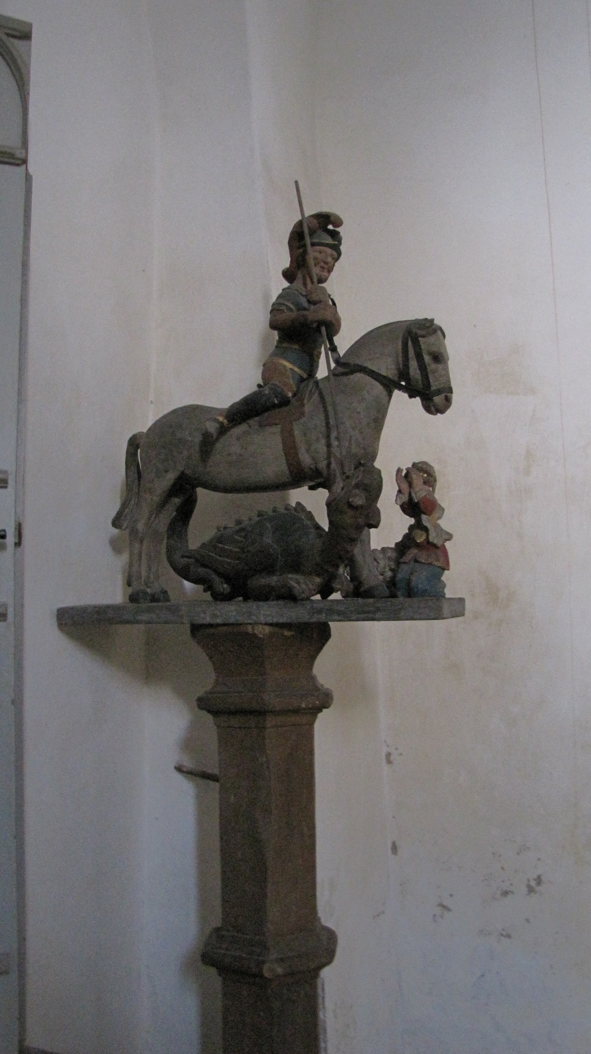 St. George's group form the demolished chapel of the Siechenhaus, now in Dassow church